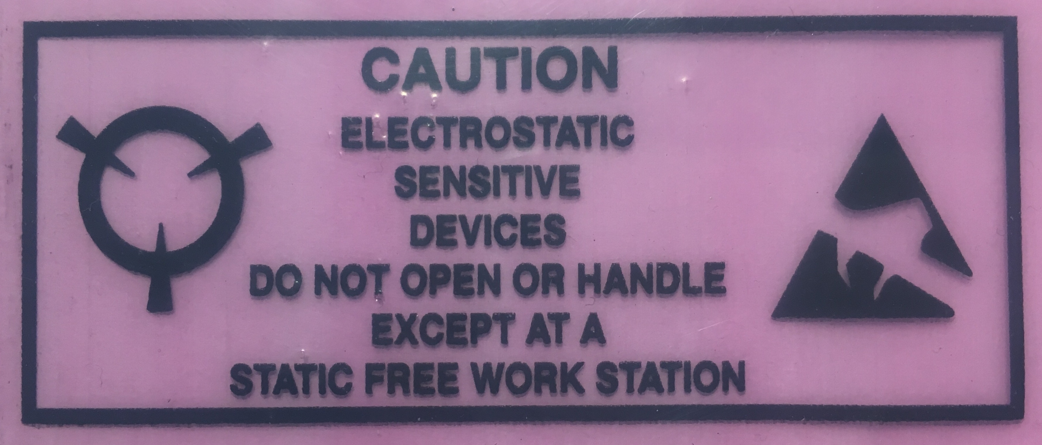 ESD warning label on a static dissipative antistatic bag